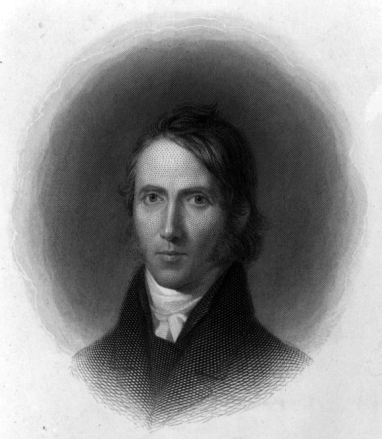 Engraving of American theologian William Ellery Channing. From Memoir of William Ellery Channing: With Extracts from his Correspondence and Manuscripts (edited by William Henry Channing). Published by Crosby, Nichols, 1854.